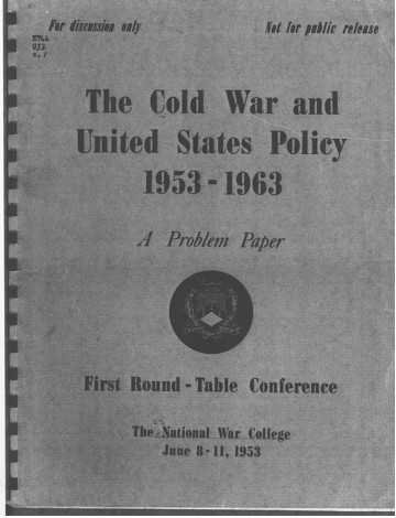 Pamphlet for Solarium 'Cover Plan'